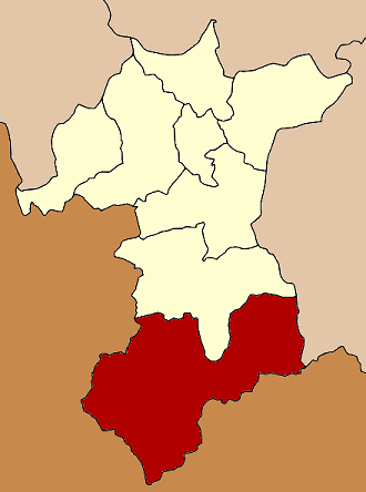 Map of Yala, Thailand, highligthing Amphoe Betong (geocode 9502).